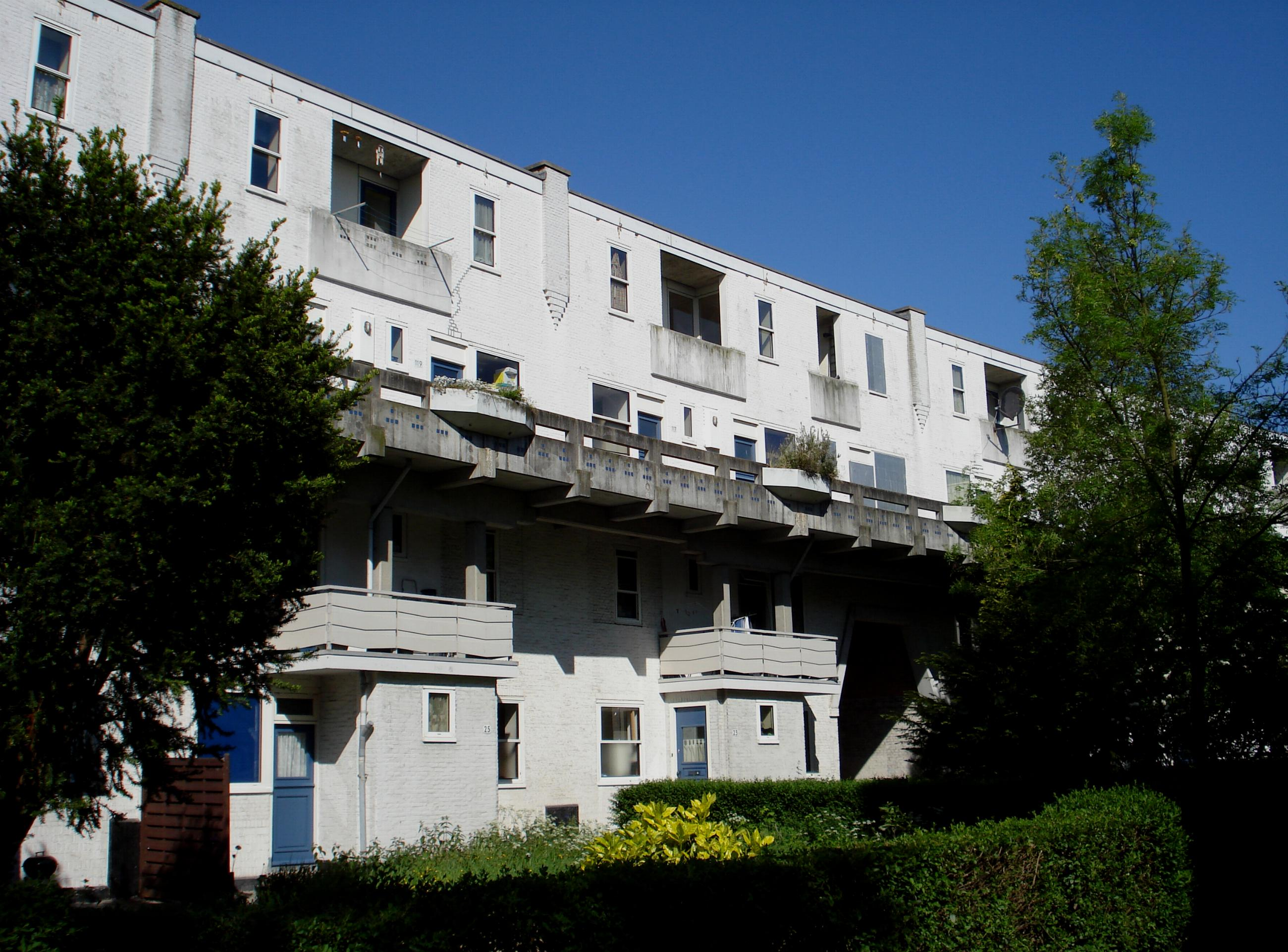 Rotterdam, Spangen, housing estate by architect Michel Brinkman.